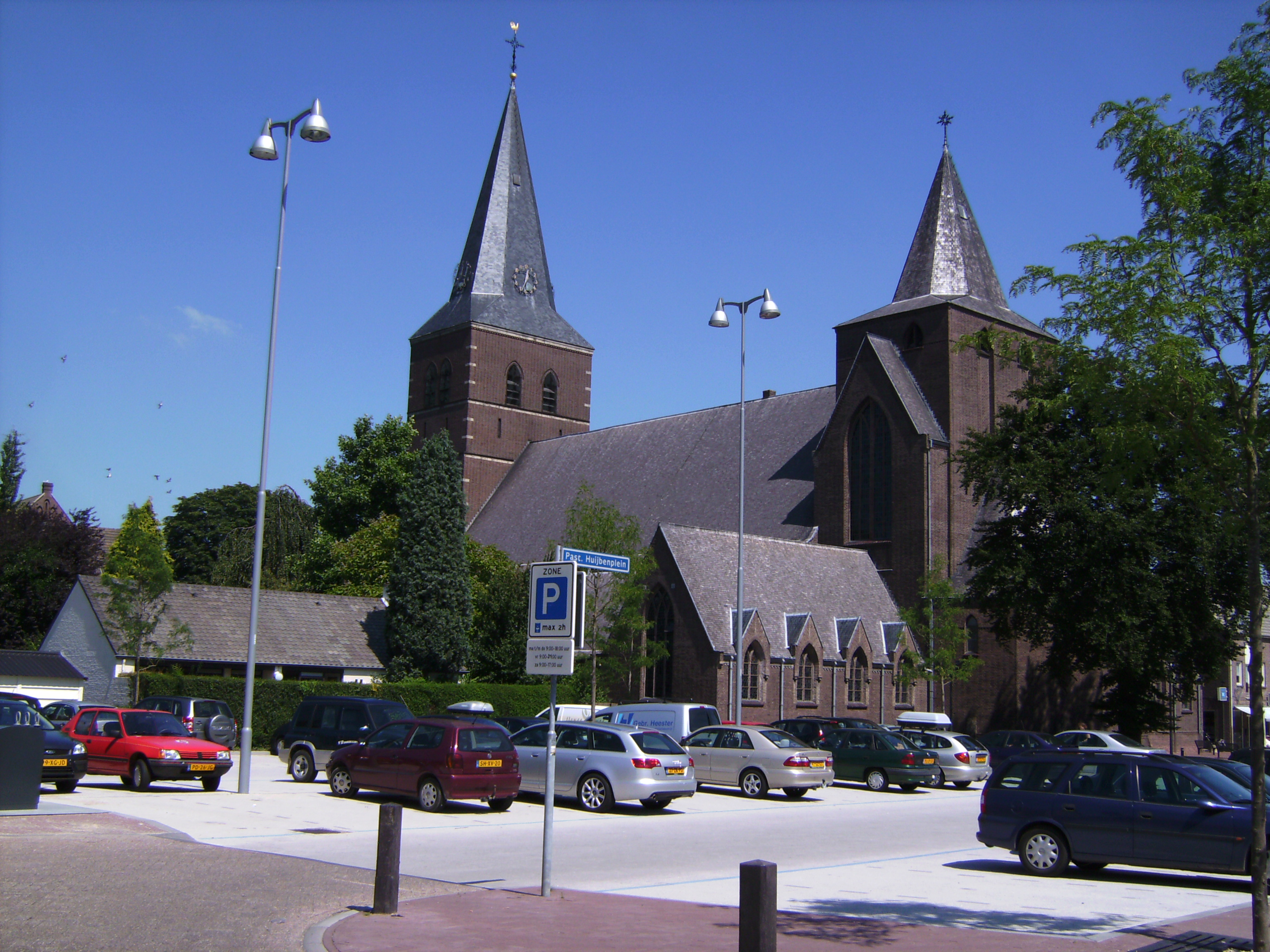 Panningen, church